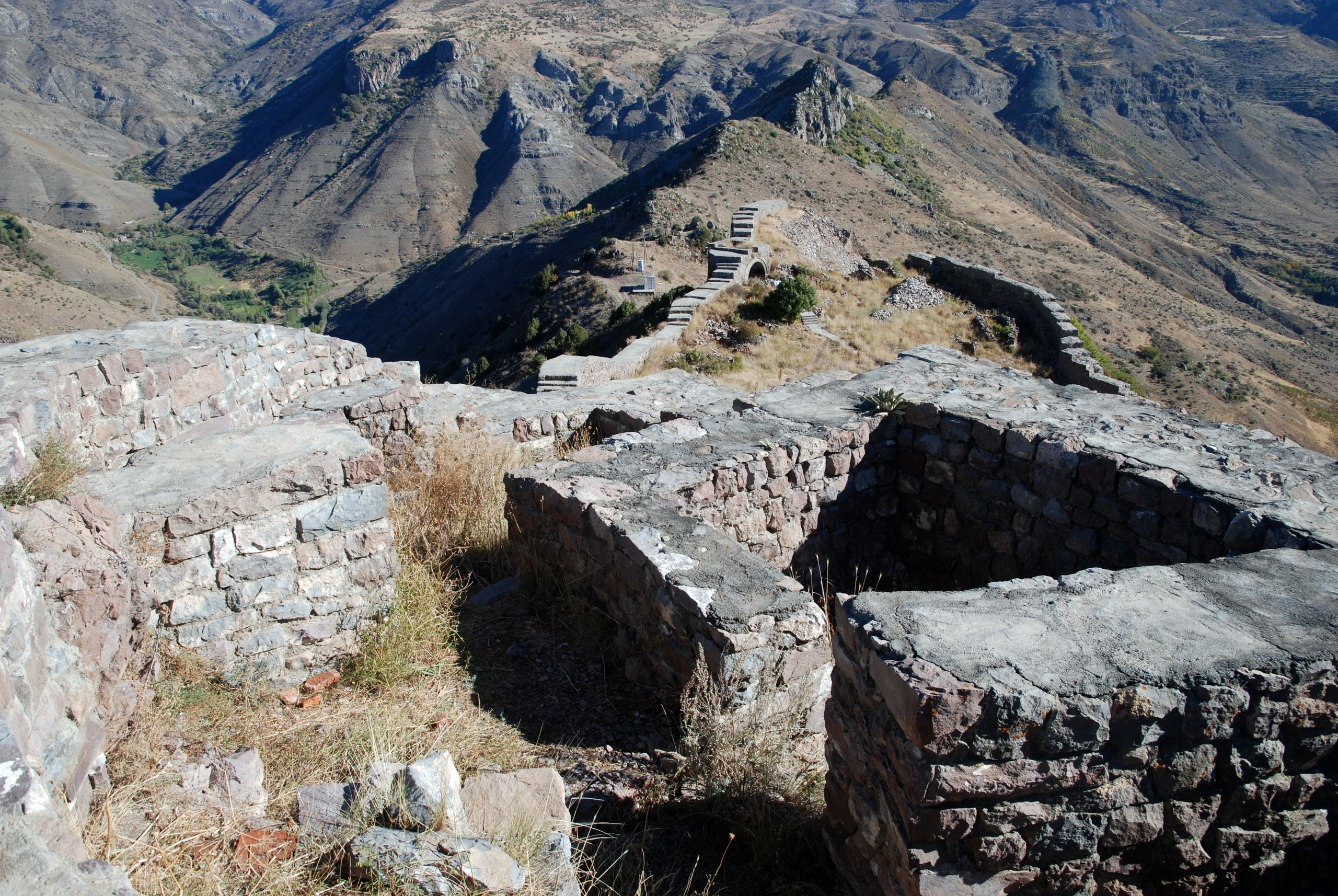 Smbataberd, from citadel to north